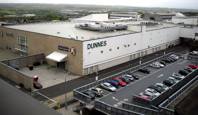 Rear view of the Antonine shopping centre, Cumbernauld, Scotland, photographed from Flemming House